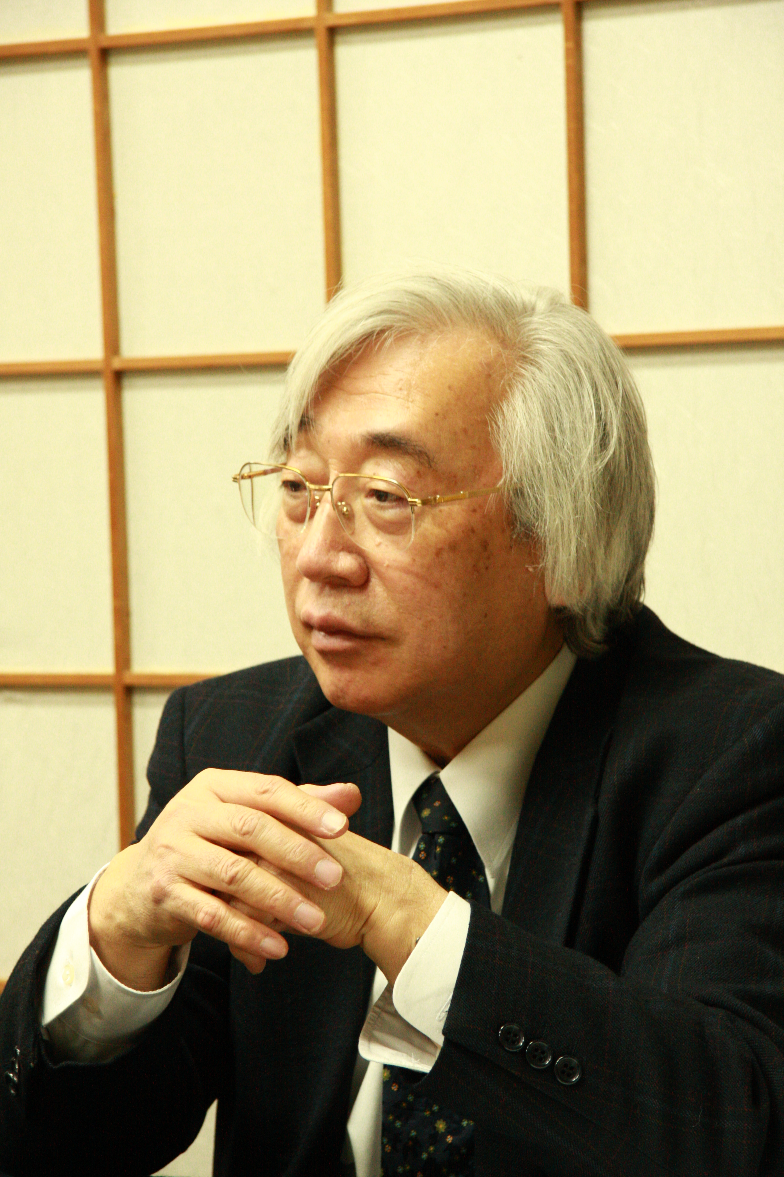 artist-calligrapher Ryuseki Morimoto